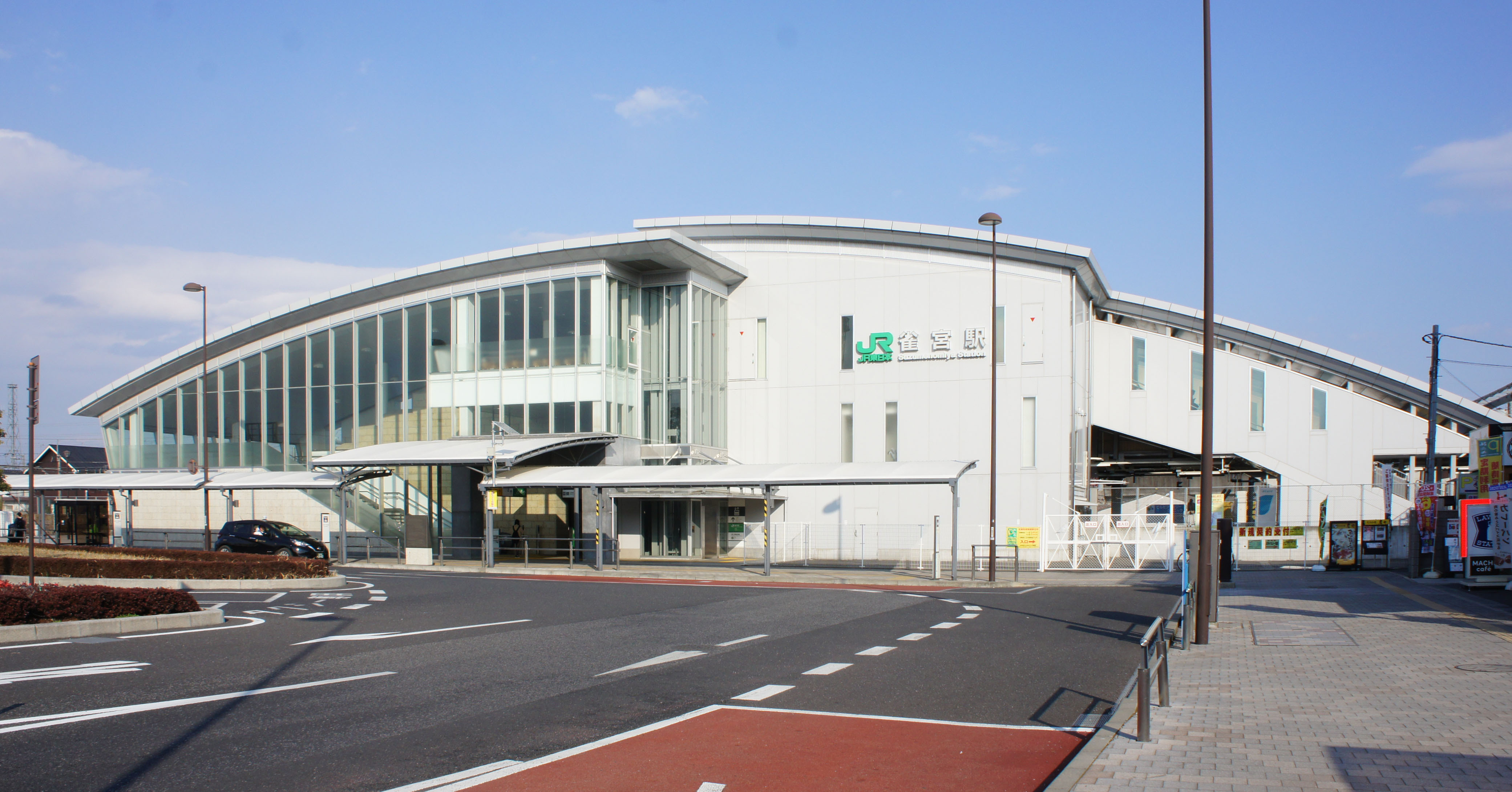 Station building of JR Tohoku-Main-Line (Utsunomiya-Line) Suzumenomiya Station Sony NEX-3